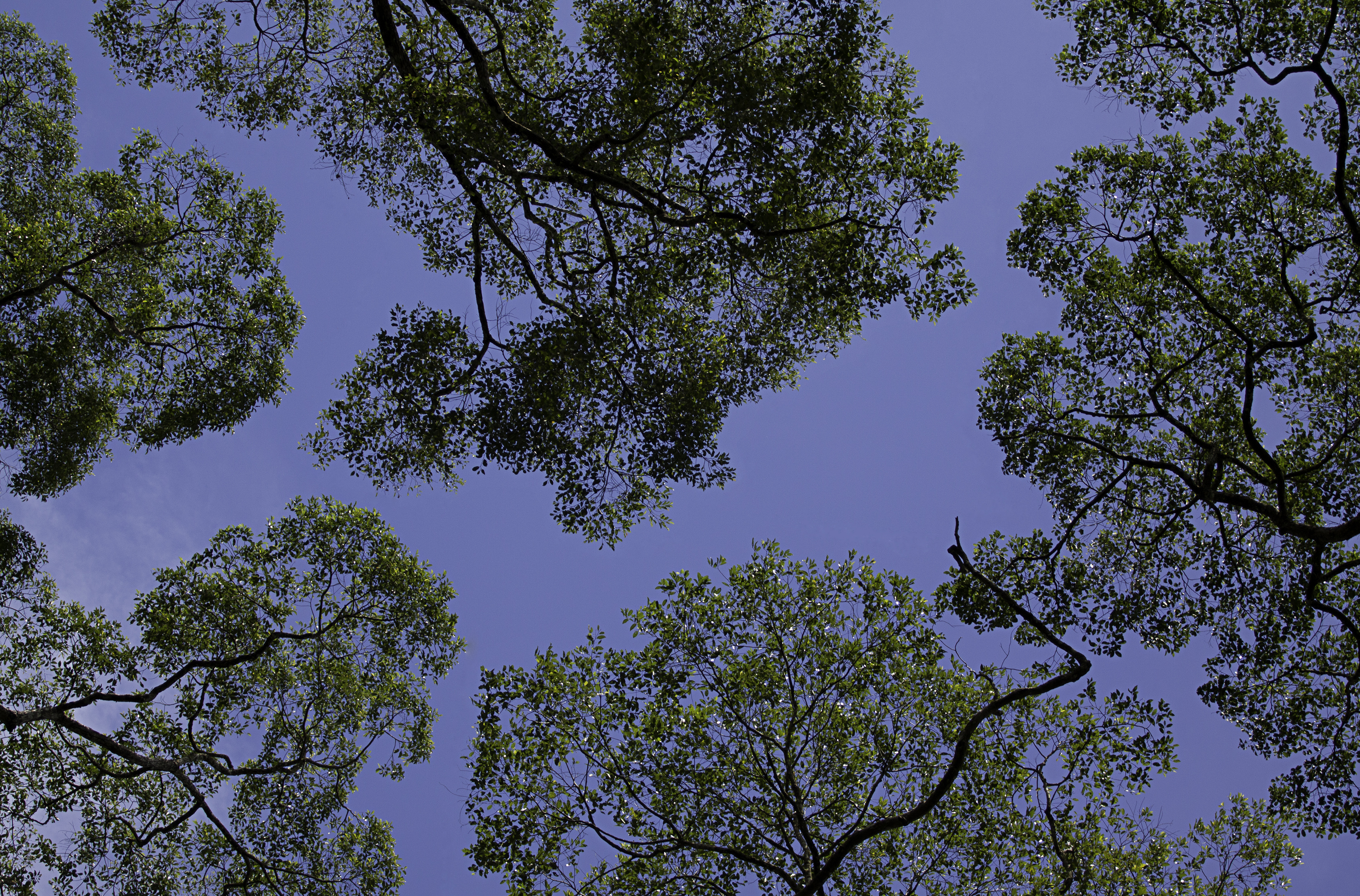 The canopy in Sepilok Orangutan Rehabilitation Centre in the Malaysian Sabah District of North Borneo.